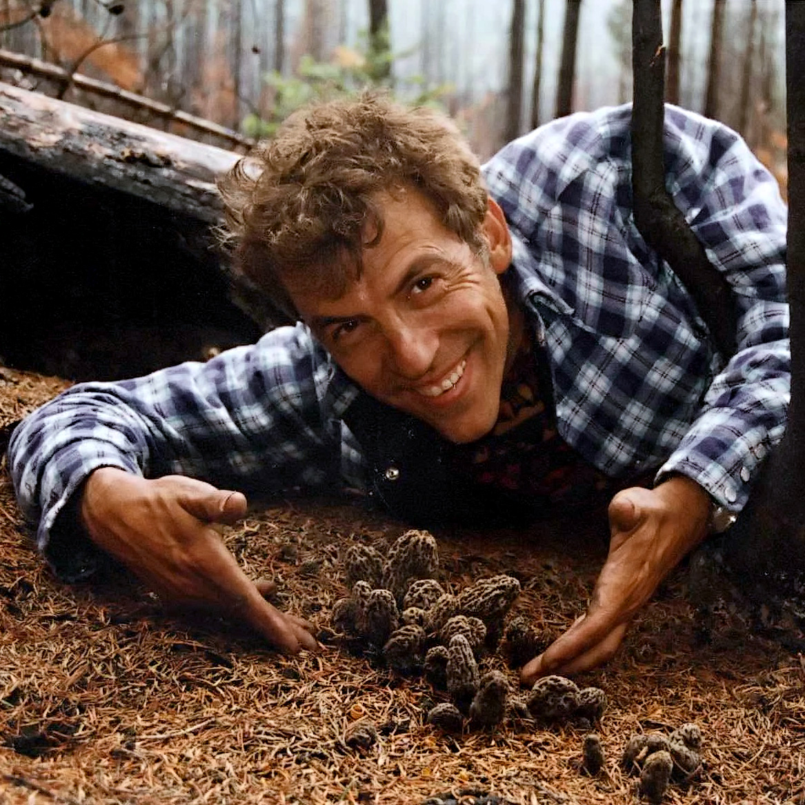 Portrait of David Arora with morels in natural habitat.